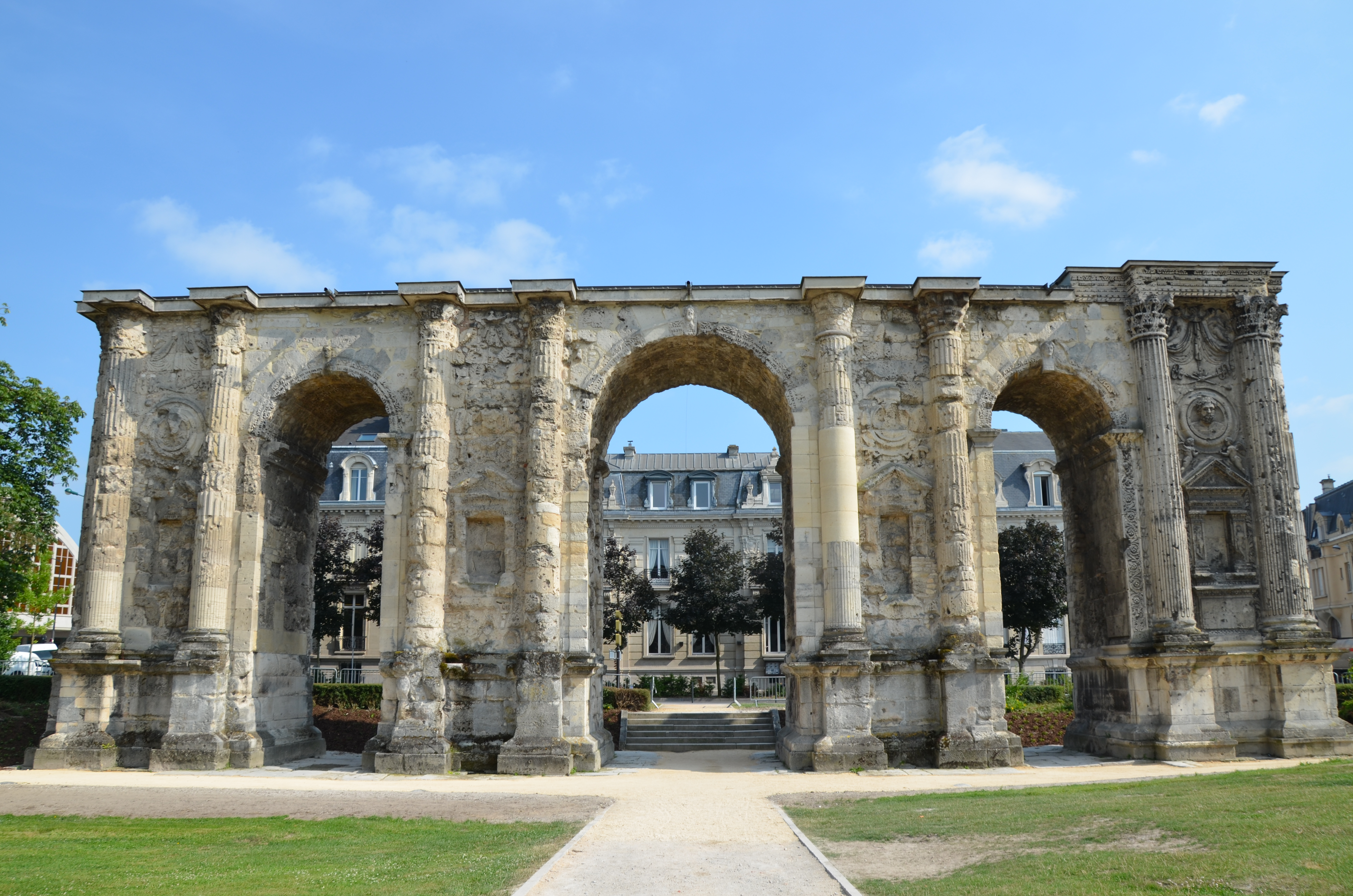 The Porte Mars, an ancient Roman triumphal arch in Reims dating from the 3rd century AD and the widest arch in the Roman world, Durocortorum (Reims, France)